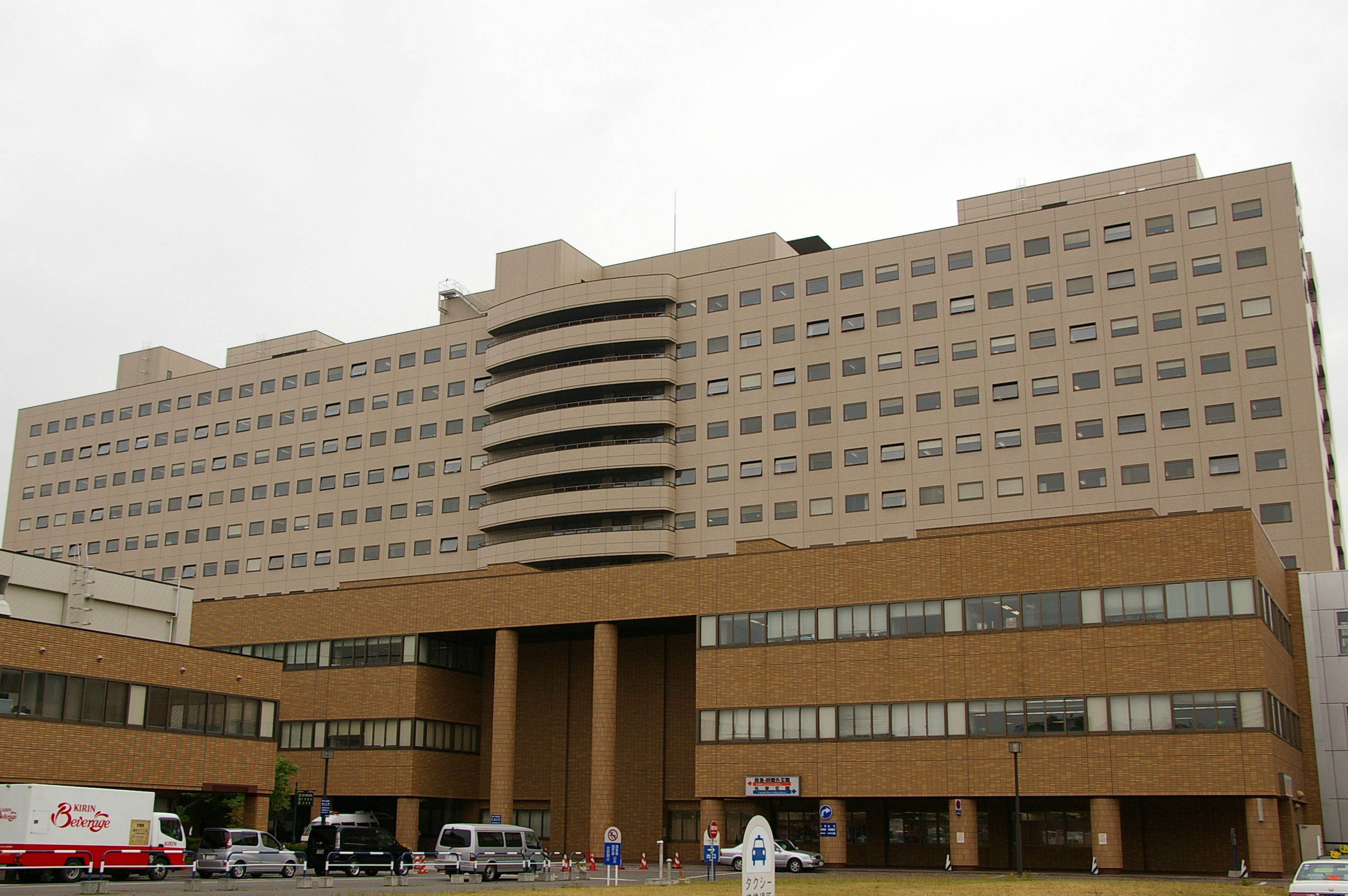 Photograph of Hokkaido University Hospital in kita-ku, Sapporo, Hokkaido, Japan.